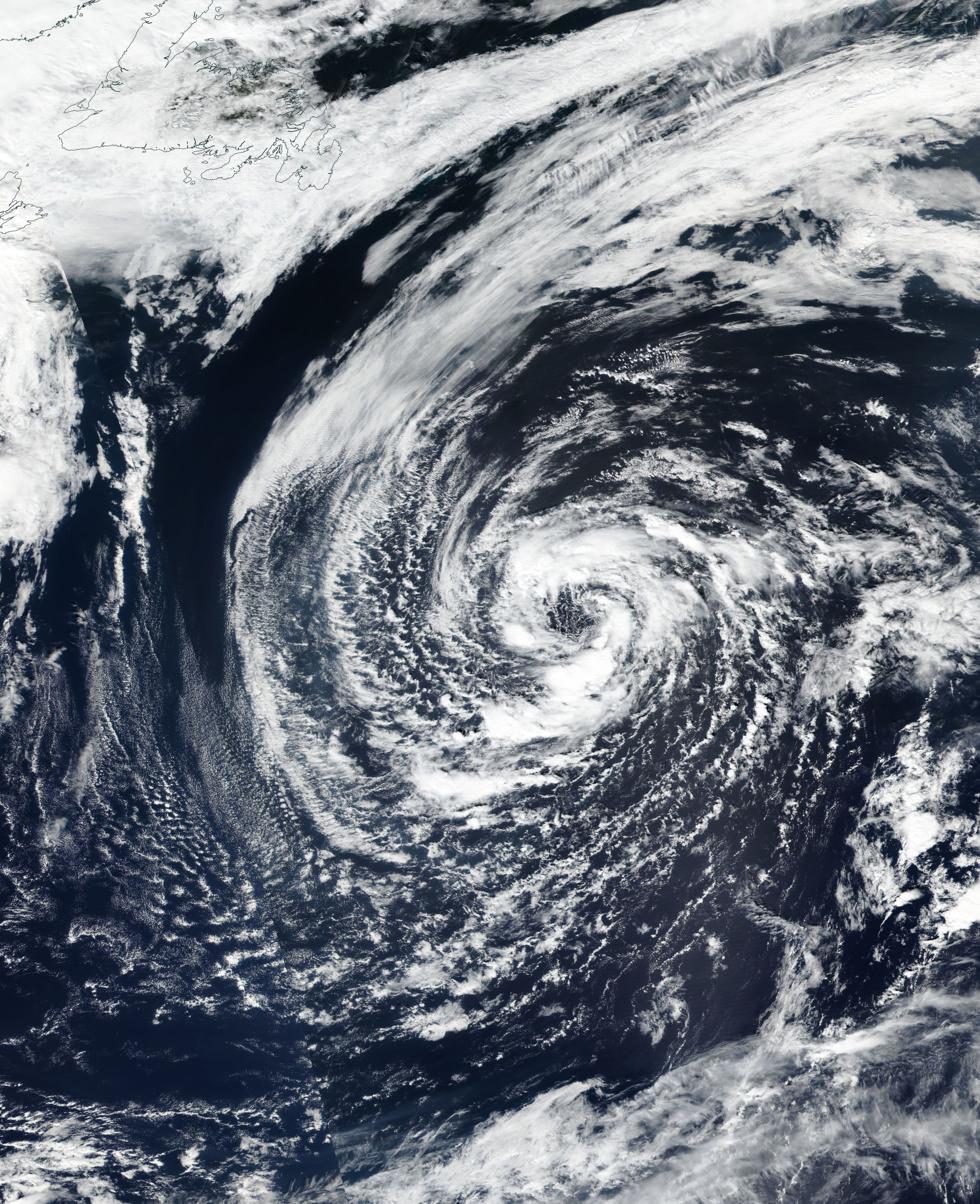 Leslie at peak intensity as an extra tropical cyclone